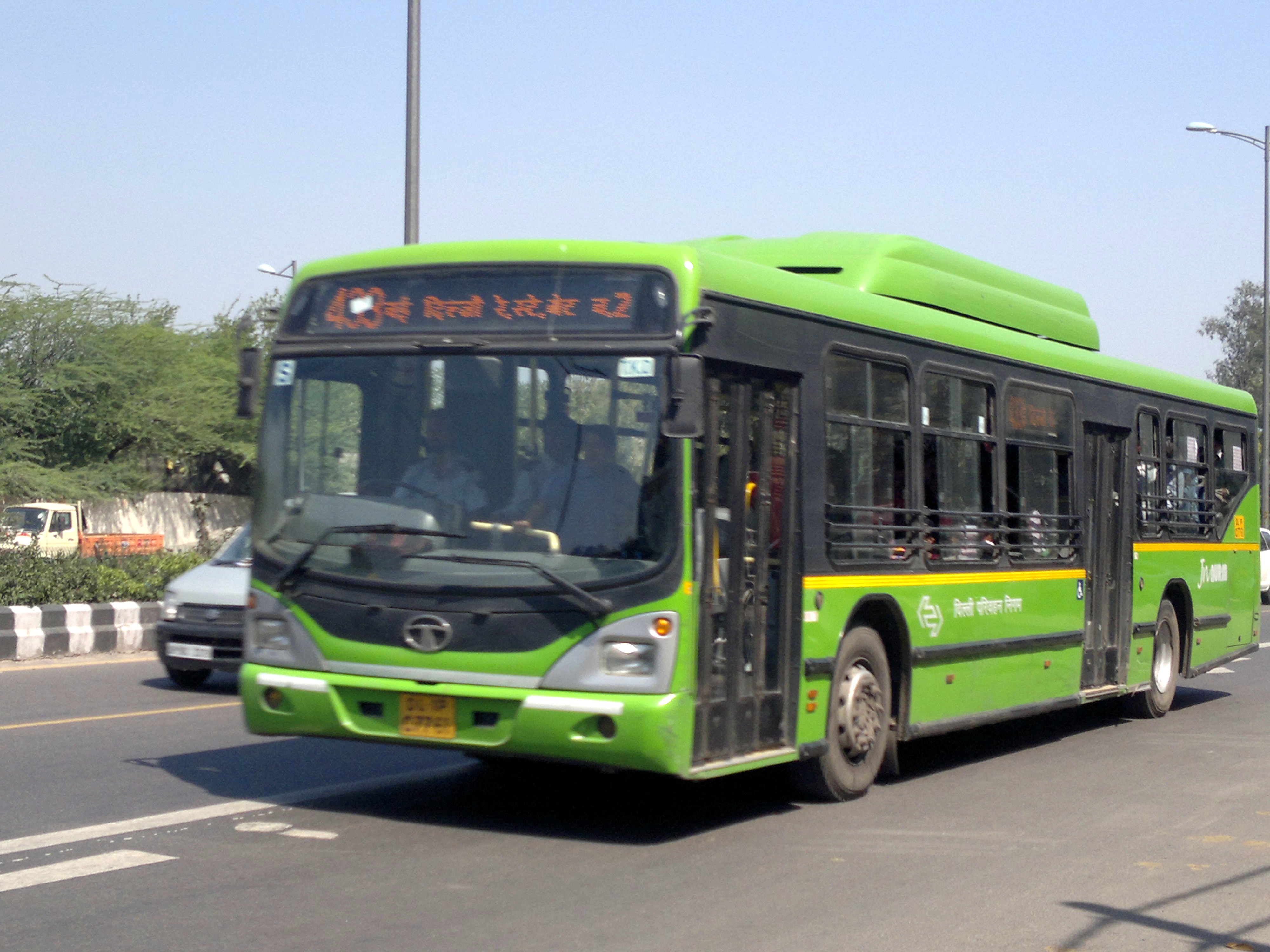 The Delhi Transport Corporation (DTC) operates the world's largest fleet of CNG-powered buses. After Pune, Delhi was the second city in India to have an operational Bus rapid transit (BRT) system